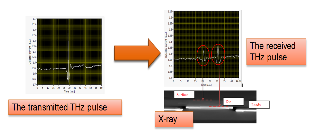 The transmitted THz pulse in reflection mode experiment setup are received by the detector with different time delays; X-ray image of the IC from the side and relating the detected peaks in THz to the different layers detected by X-ray is shown as well.